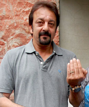 Sanjay Dutt at Maharashtra Election Voting